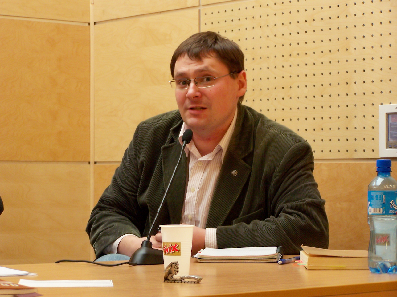 Tomasz Terlikowski.